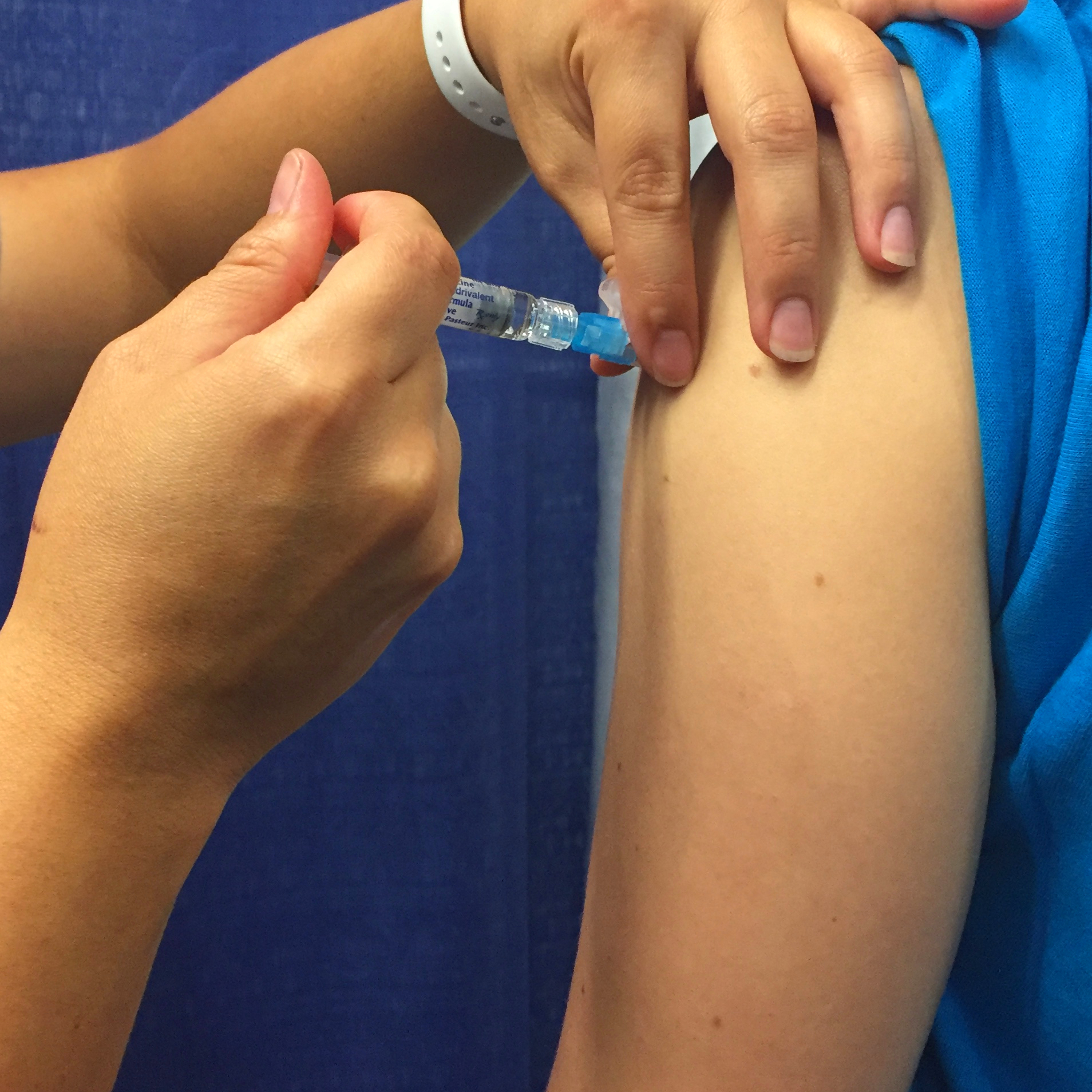 A person receives the seasonal influenza vaccine (flu shot). Credit: NIAID